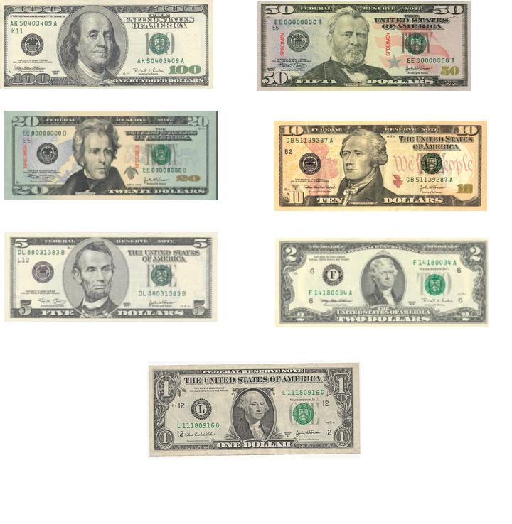 I created this image by using this images: Image:Usdollar100front.jpg Image:US $50 obverse.jpg Image:US20-front.jpg Image:US $10 Series 2004 face.jpg Image:US $5 obverse.jpgen:Image:US $2 obverse.jpg Image:US $1 obverse.jpg